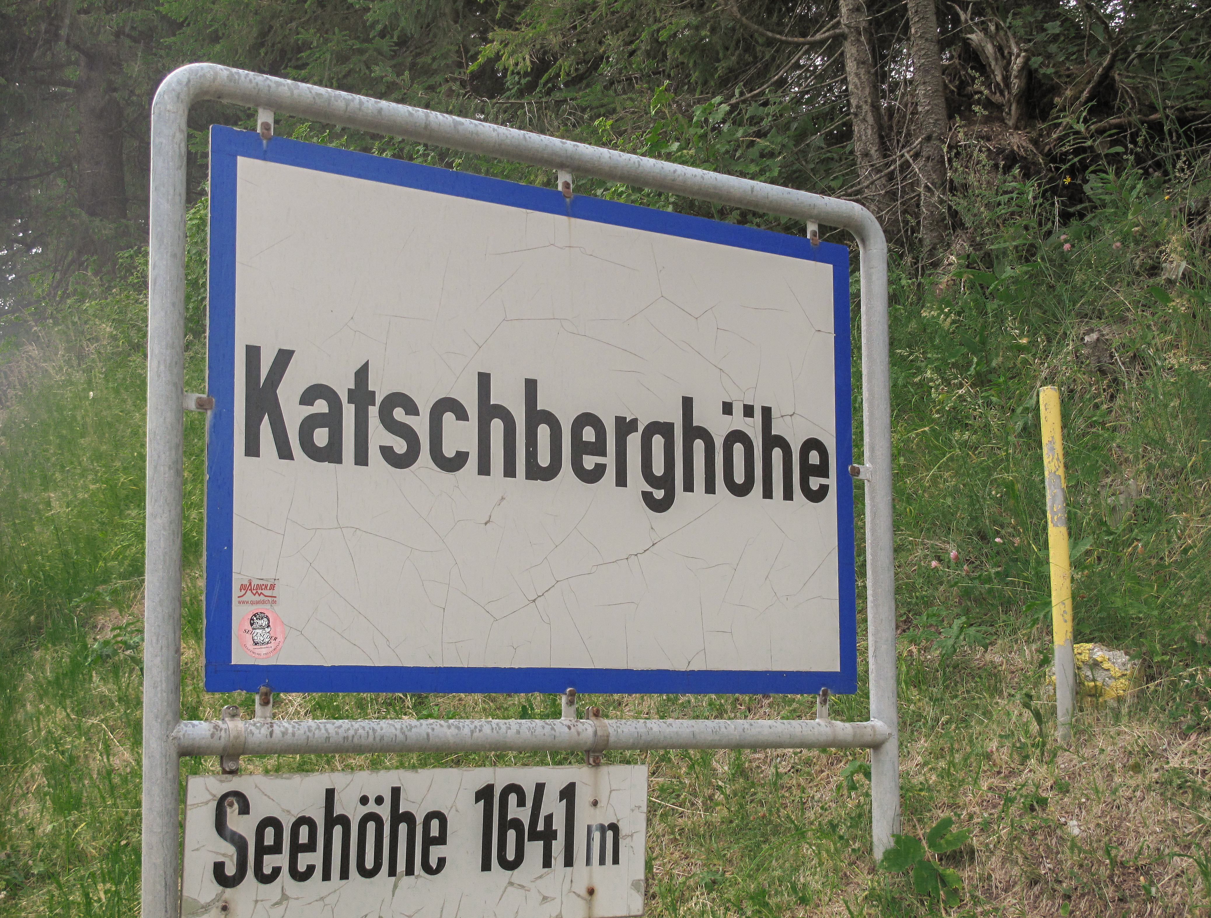 Katschberghöhe,_pass_Katsberghöhe